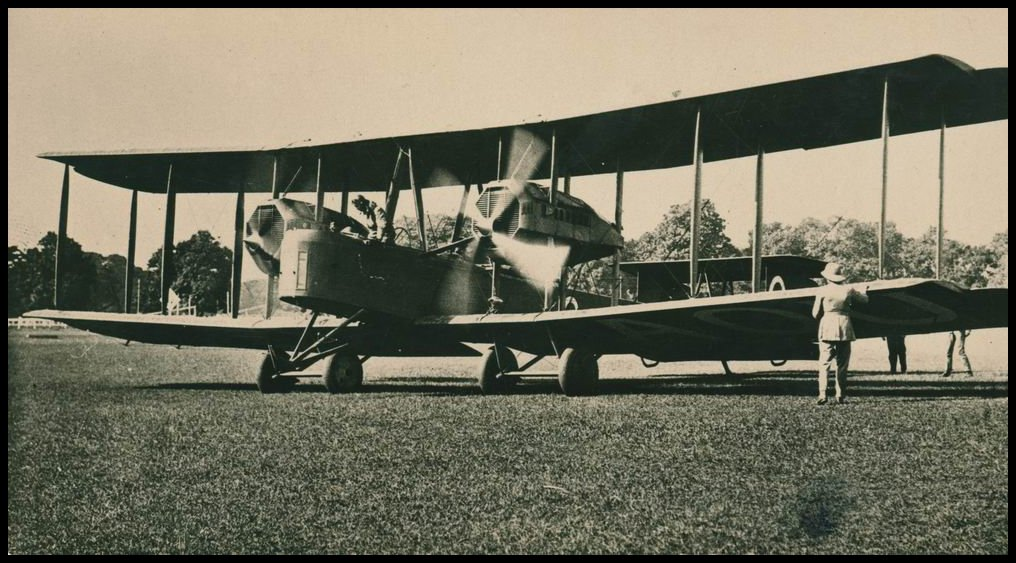 Vickers Vimy flown by Sir Ross and Sir Keith Smith from England to Australia.